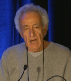 Lecturing at AERA 2016